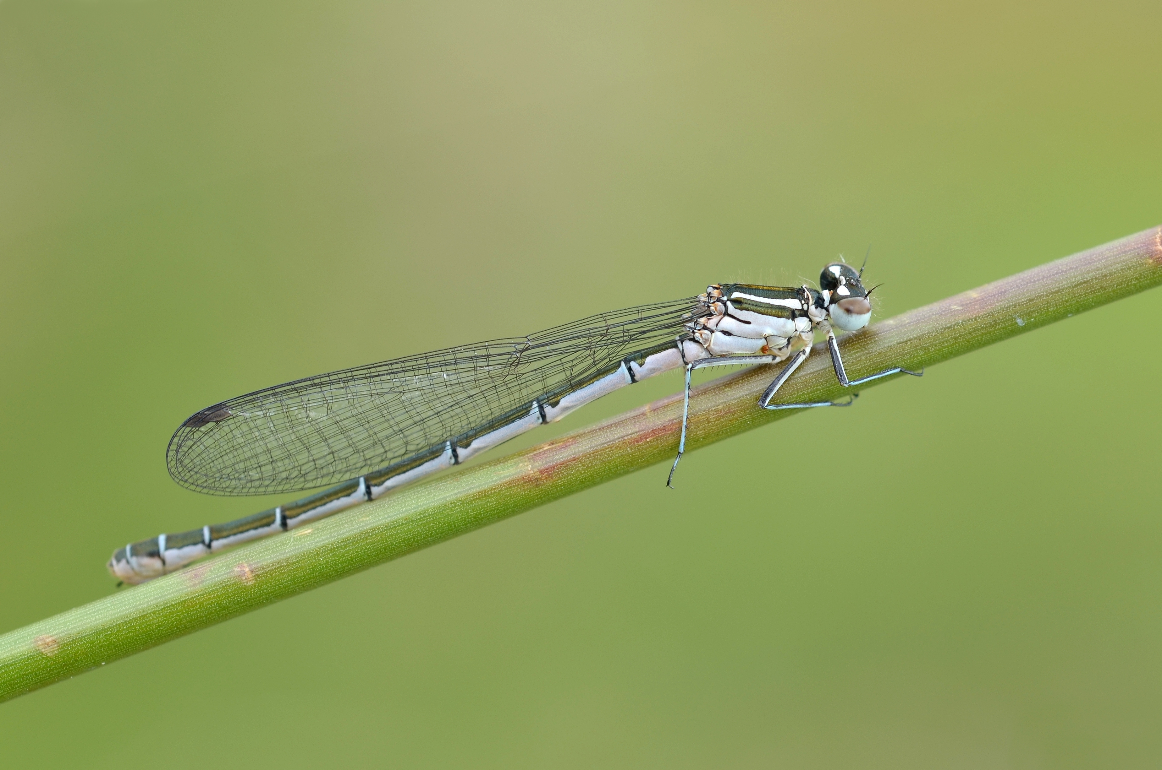 Northern Damselfly Coenagrion hastulatum female